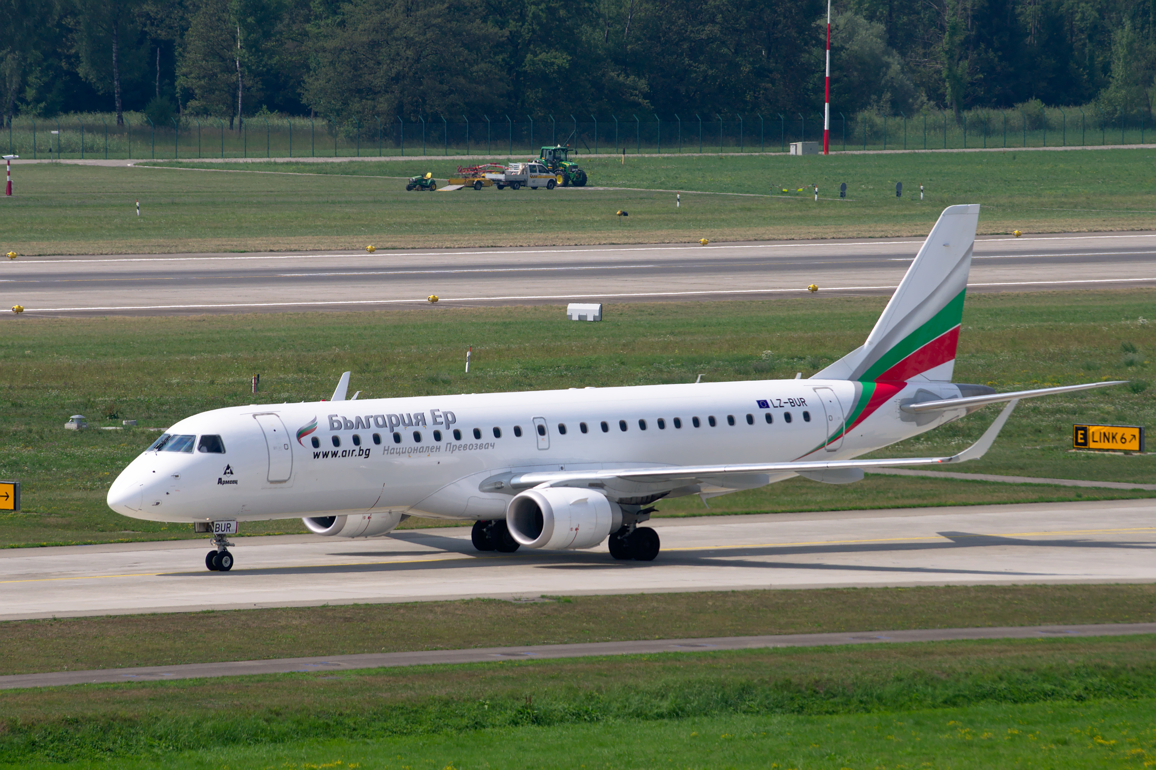 Zürich airport (ZRH).